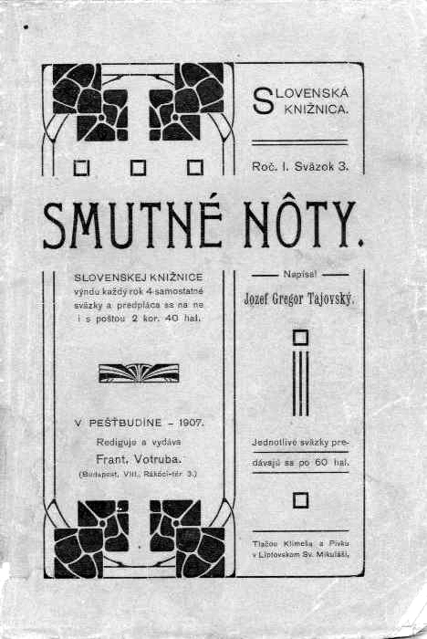 Book-jacket Jozef Gregor Tajovský Smutne nôty (1907)